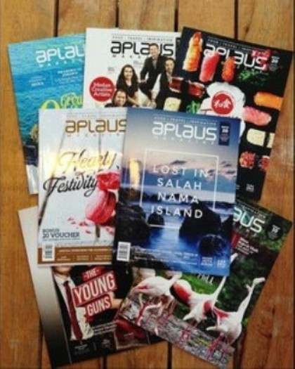 Medan majalah